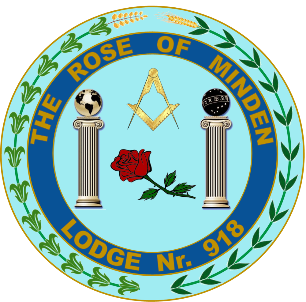 The Rose of Minden Lodge Nr. 918 Crest created to replace original